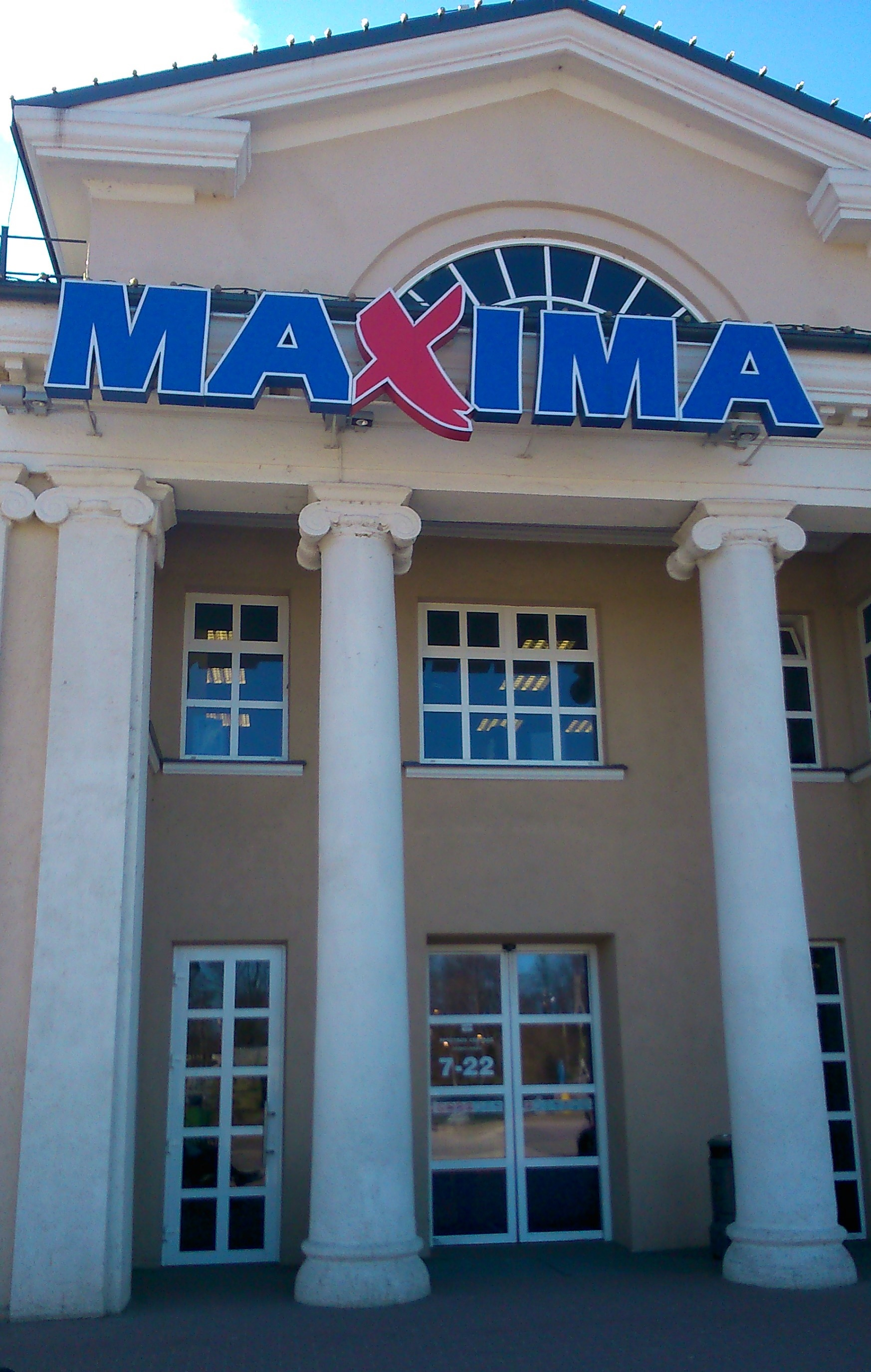 Naujoji Vilnia, Maxima supermarket